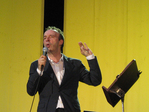 Roberto Benigni on the stage of TuttoDante a Padova